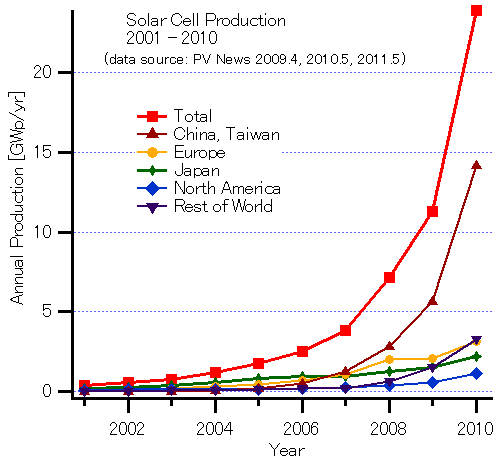 Solar cell production by region (data source: PV NEWS, Greentech Media)[1]